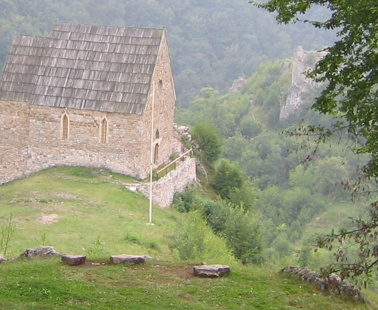 Bobovac castle in Bosnia and Herzegovina